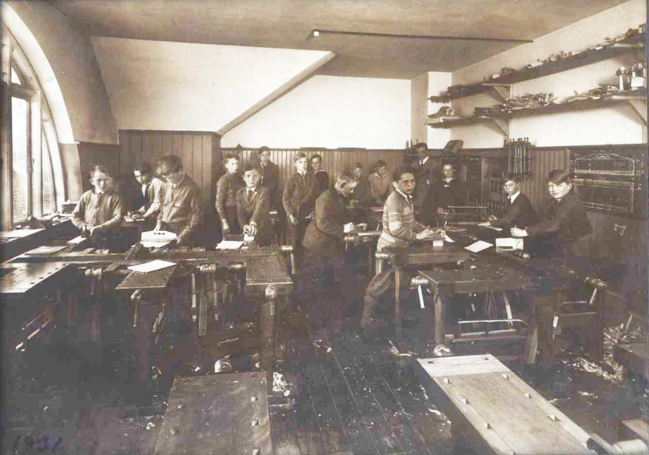 Woodwork room for teaching sloyd in Denmark